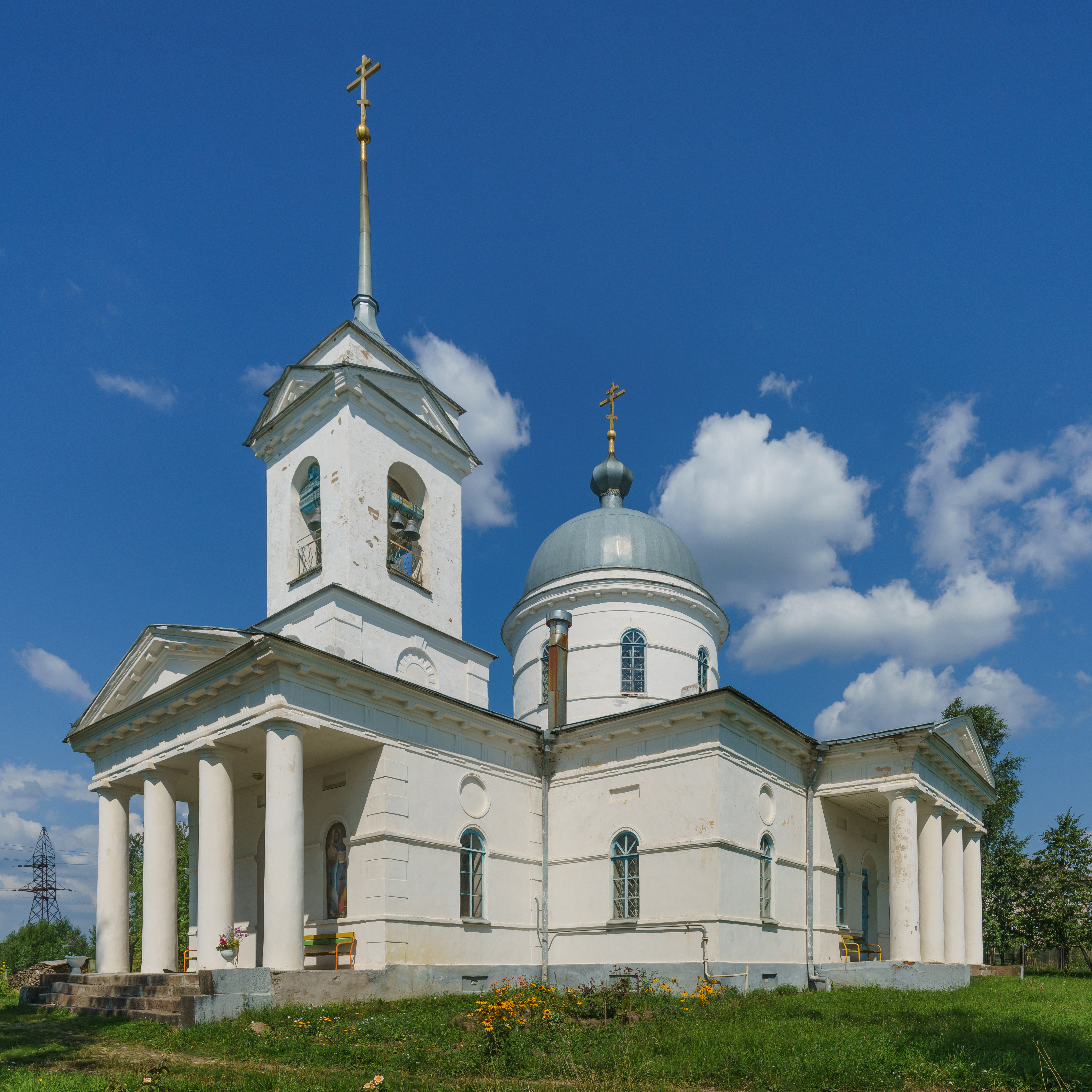 Church of the Transfiguration in Kuzhenkino, Tver Oblast, Russia.